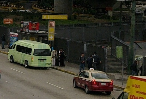 Terminal Aerea entrance